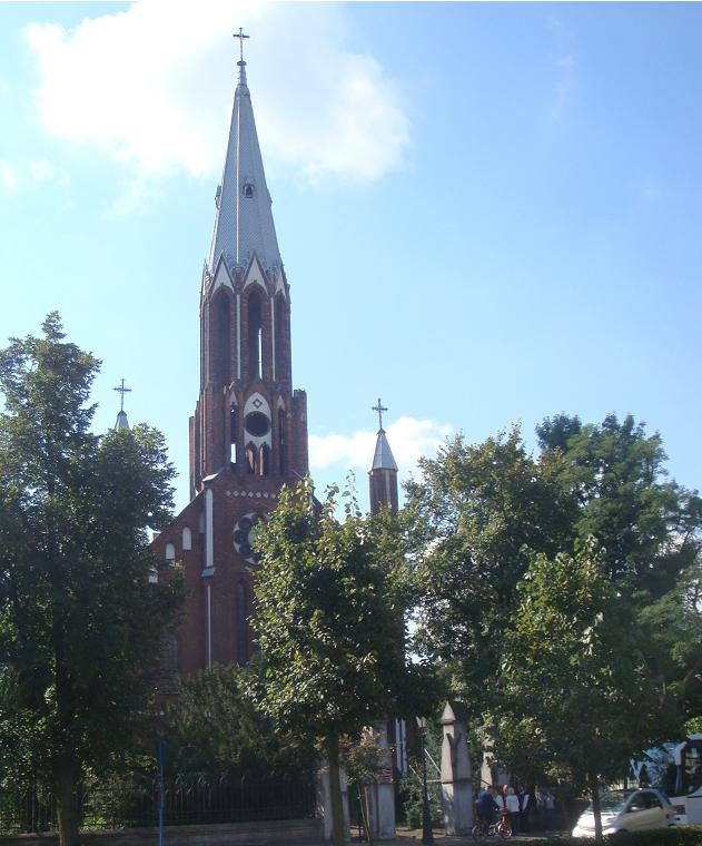 Mariavite Old Catholic Church in Lowicz